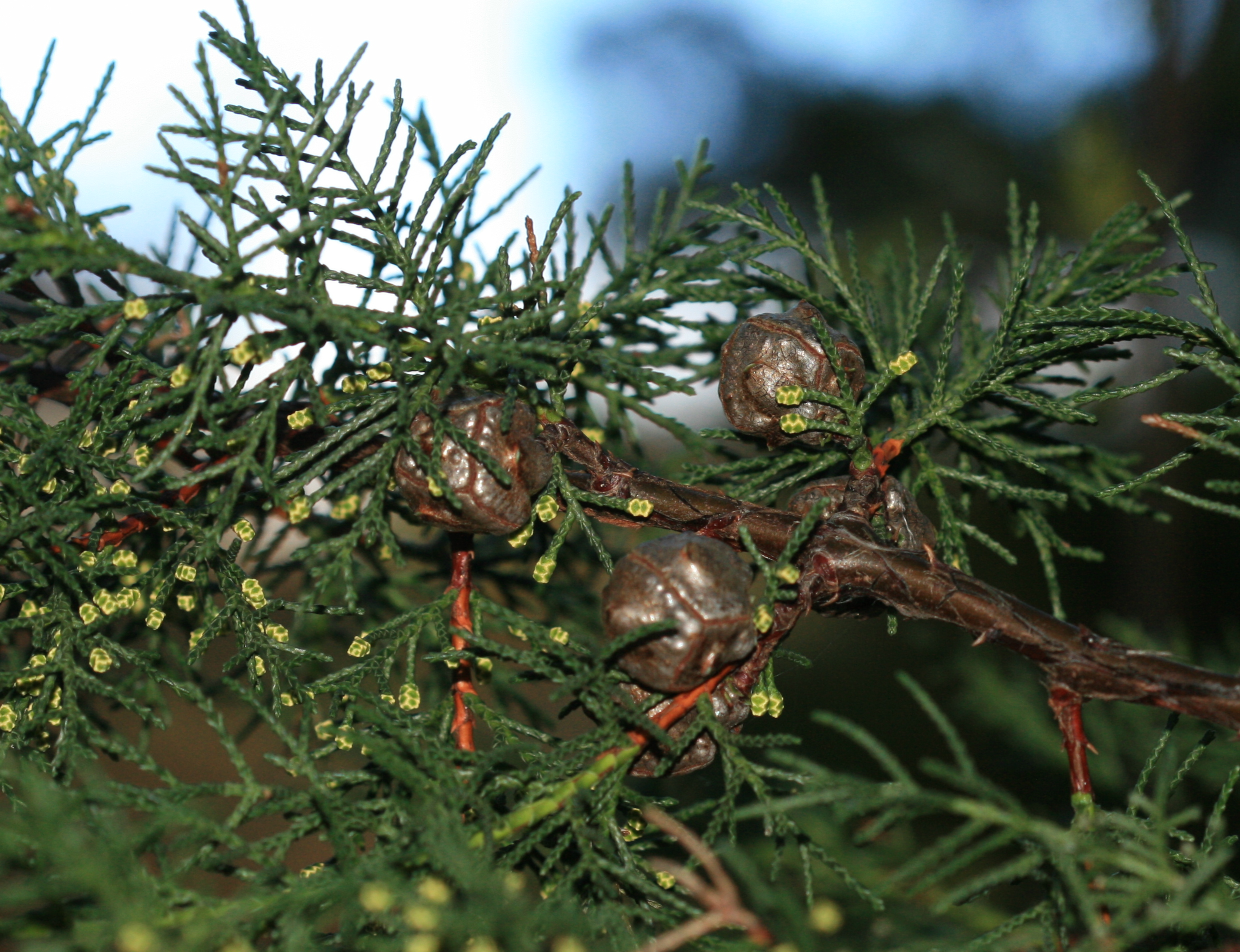 Royal Botanic Gardens, Edinburgh, Scotland. Tree tagged as "Cupressus goveniana var. abramsiana" Ref: .uk/bgbase/livcol/bgbaselivcol.php?cfg=bgba...